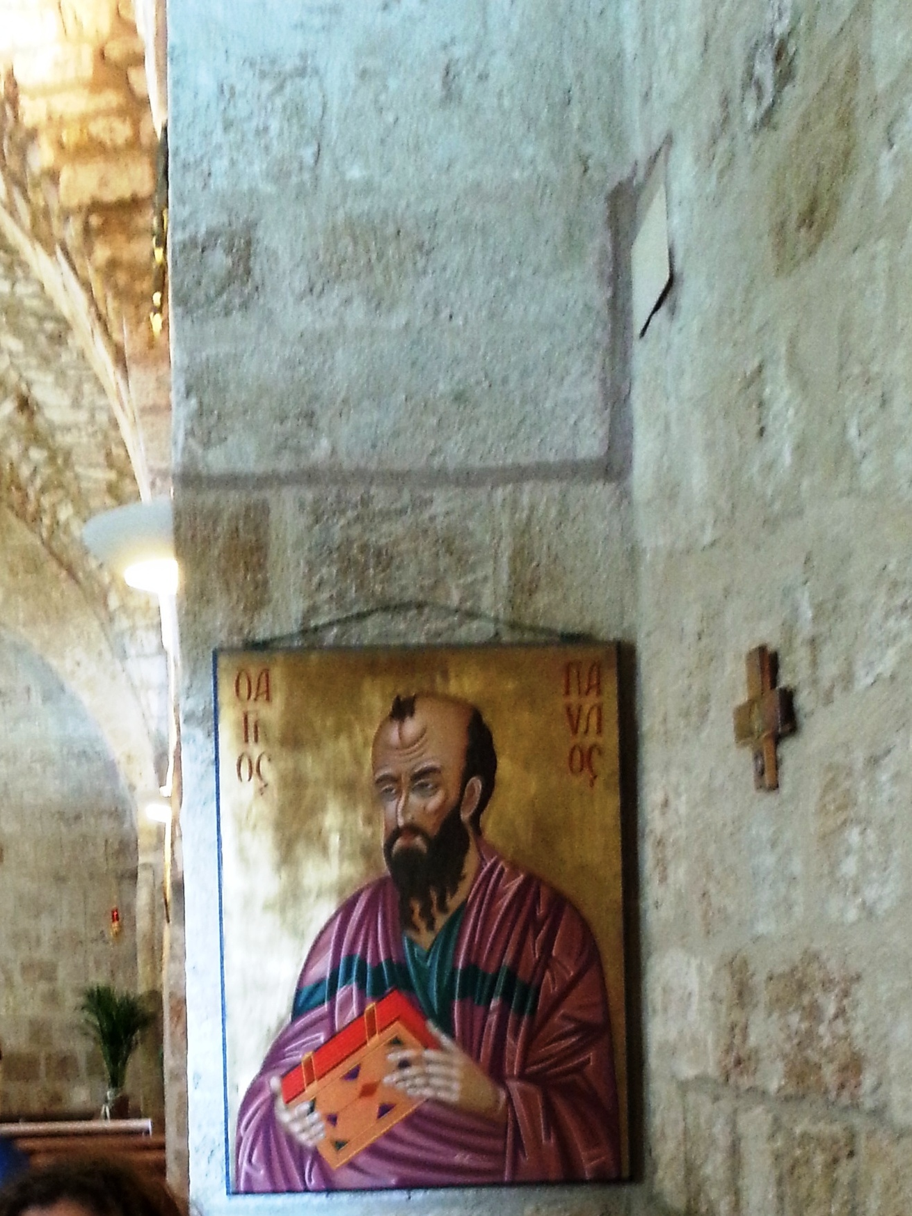 Franziskanerkirche St. Johannis Baptistae in Akko, Israel, Ikone des Heiligen Scha'ul Paulus von Tarsos